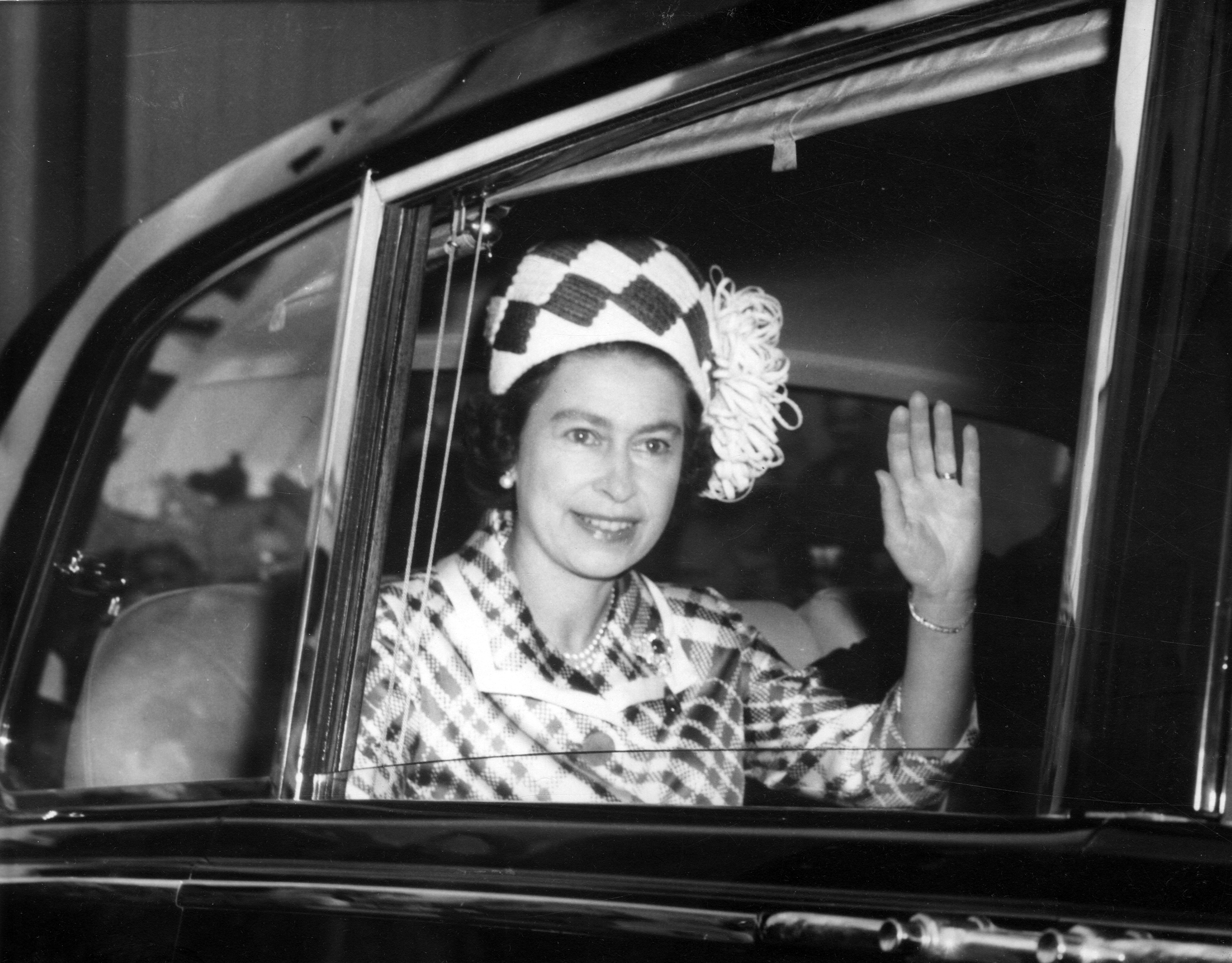 Queen Elizabeth II waving to crowds in Queensland, Australia, some time in 1970